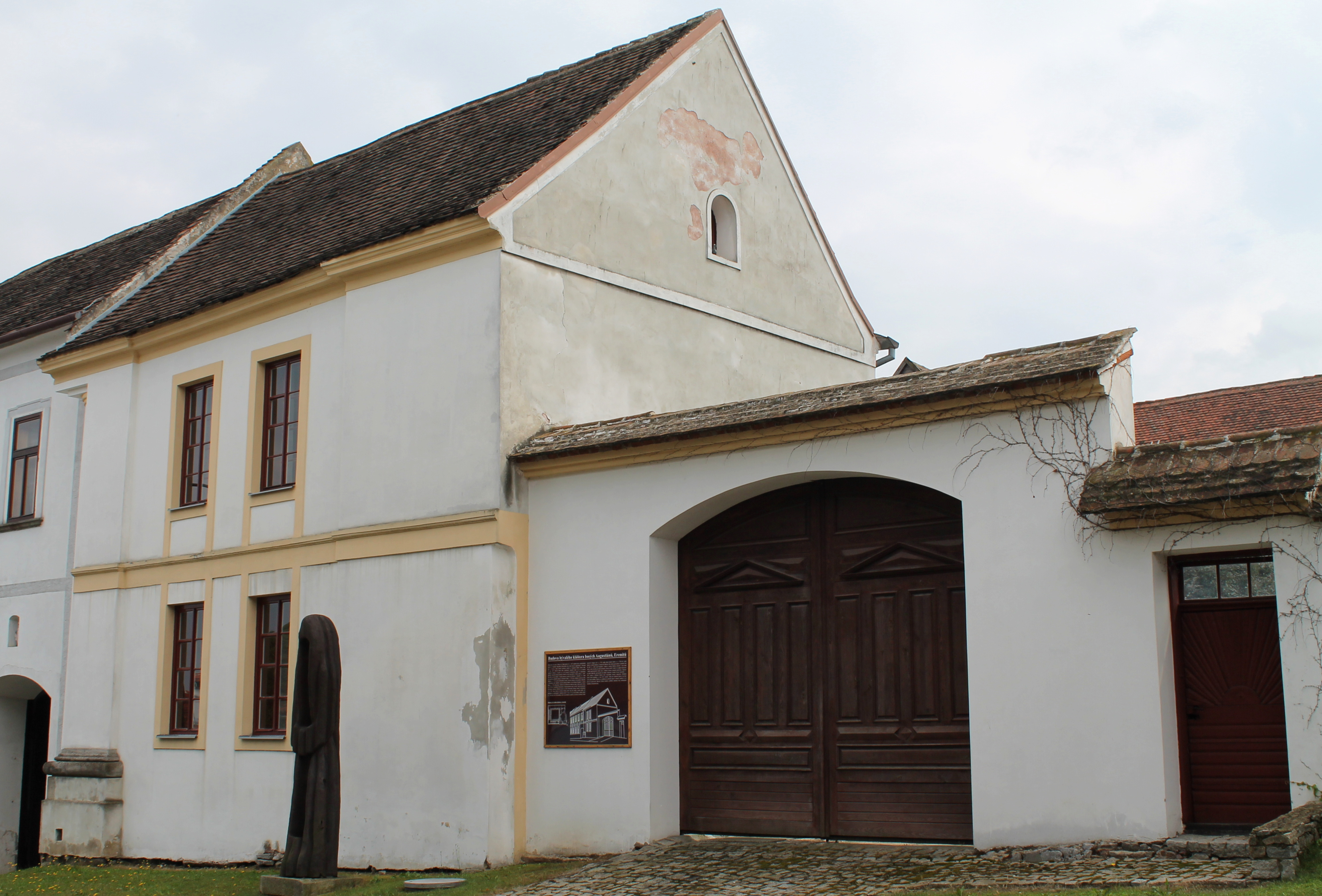 Church of Saint Nicholas of Tolentino, Znojmo District, Czech Republic